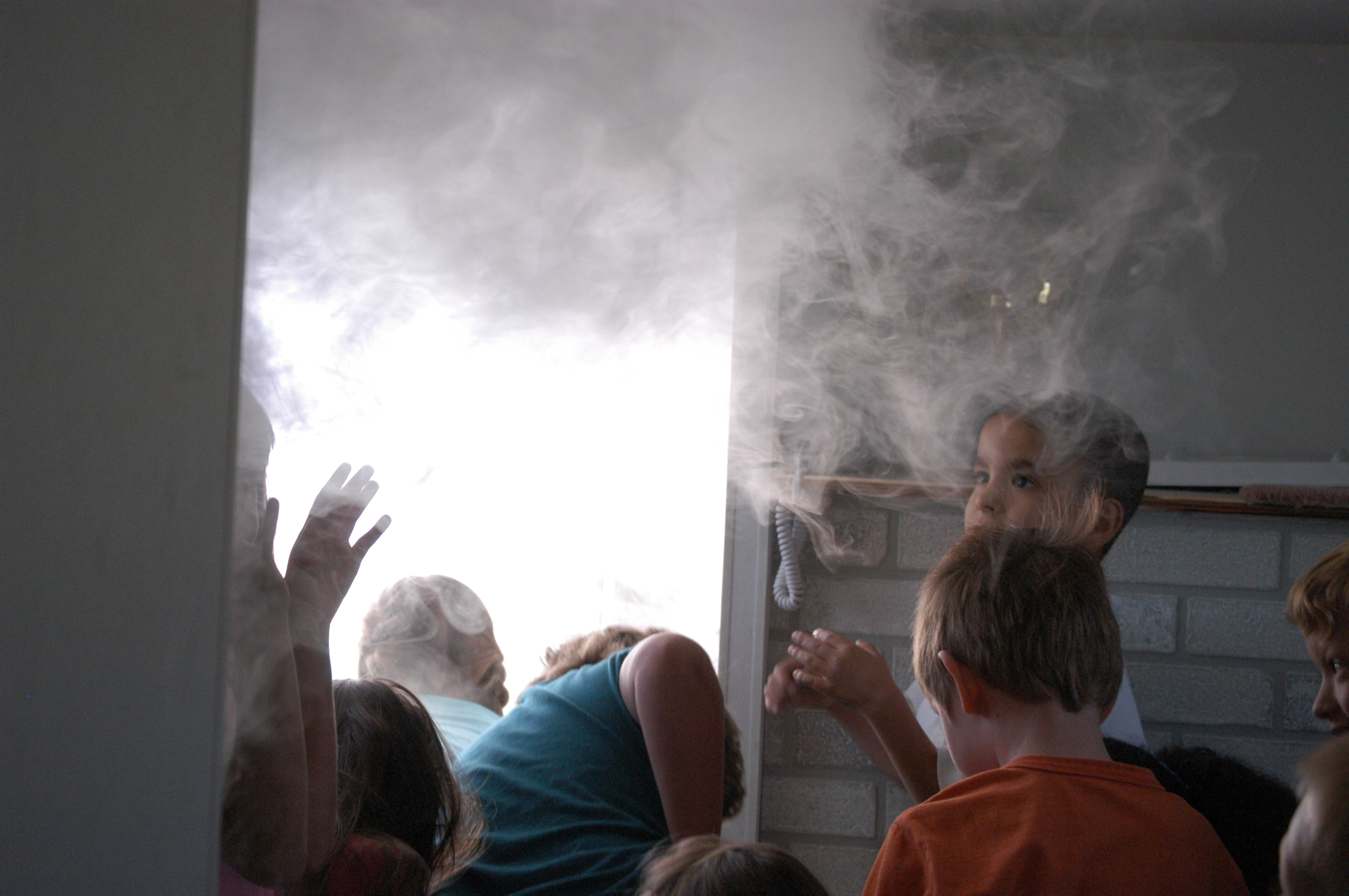 Smoke fills the smokehouse model room as elementary school students listen to instructions from Fire Inspector Dave Land on how to exit a burning building. Land explained to them, as smoke builds it drops lower to the ground, so the 'get low and go' method works best for escaping.